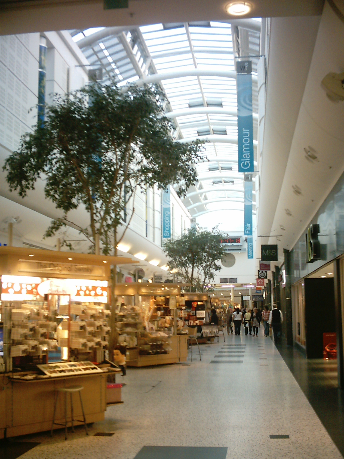 An indoor precinct in the White Rose Shopping Centre, in Beeston, Leeds, West Yorkshire, UK. Taken on the 20th April 2009.